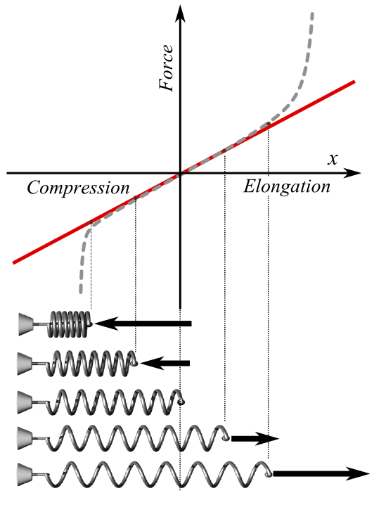 hooke's law as an approximation